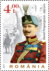 David Praporgescu